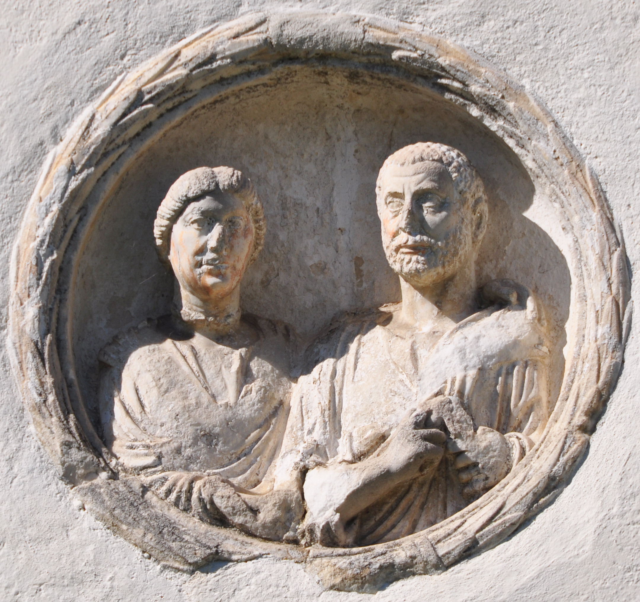 Ancient Roman relief medaillon (portrait grave stone of a Roman couple) in the wall of the steeple at Sankt Michael am Zollfeld, market town Maria Saal, district Klagenfurt Land, Carinthia, Austria, EU